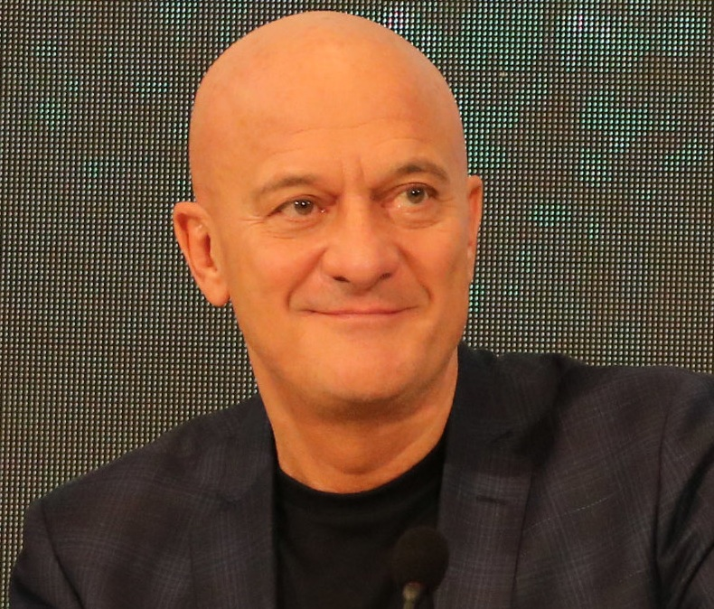 Claudio Bisio - Sanremo 2019